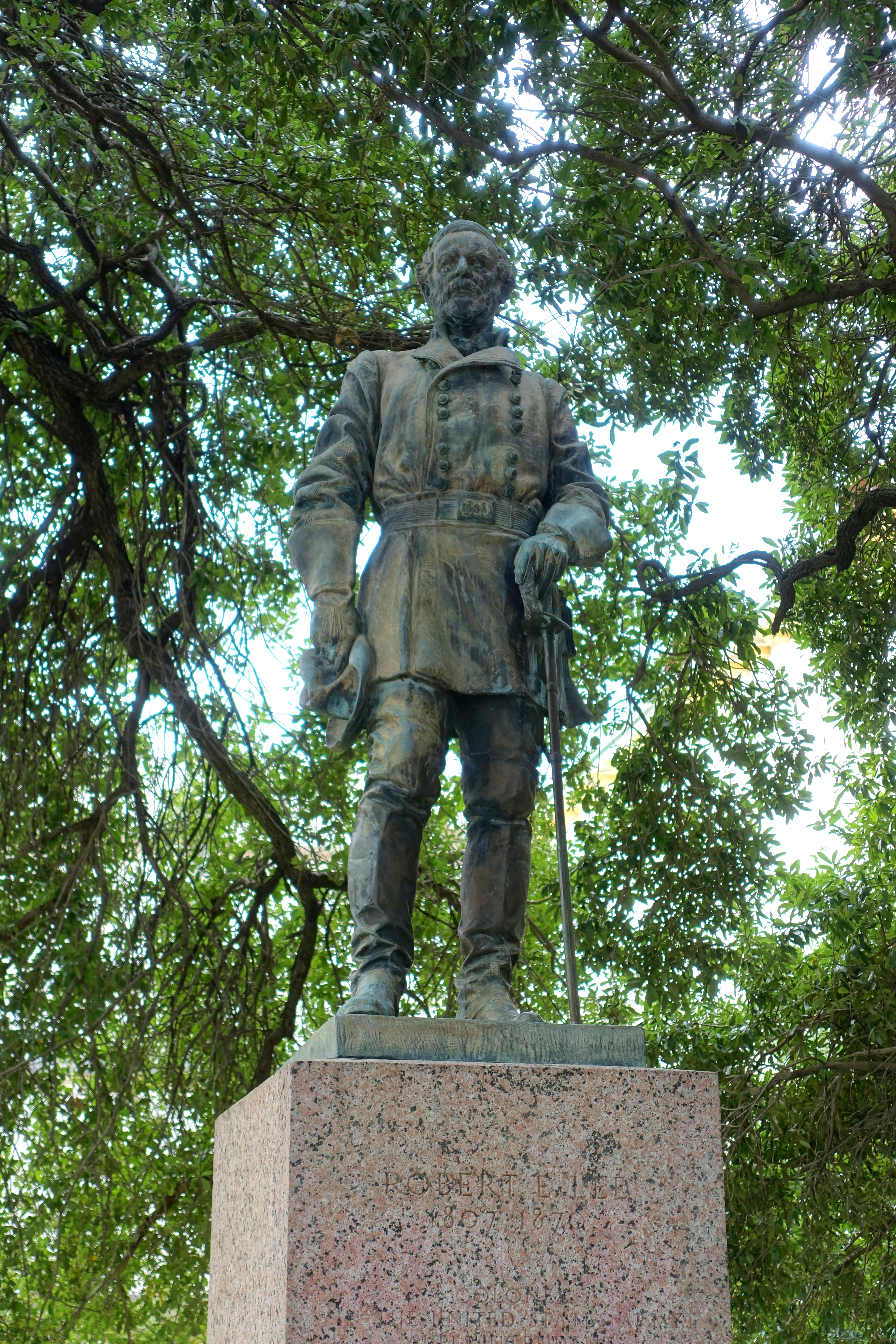 Robert E. Lee by Pompeo Coppini - University of Texas at Austin, Austin, Texas, USA. Created circa 1923. This artwork is in the public domain because it was published in the United States between 1923 and 1963, with its copyright not renewed. Smithsonian SIRIS Control Number: IAS 77006158.